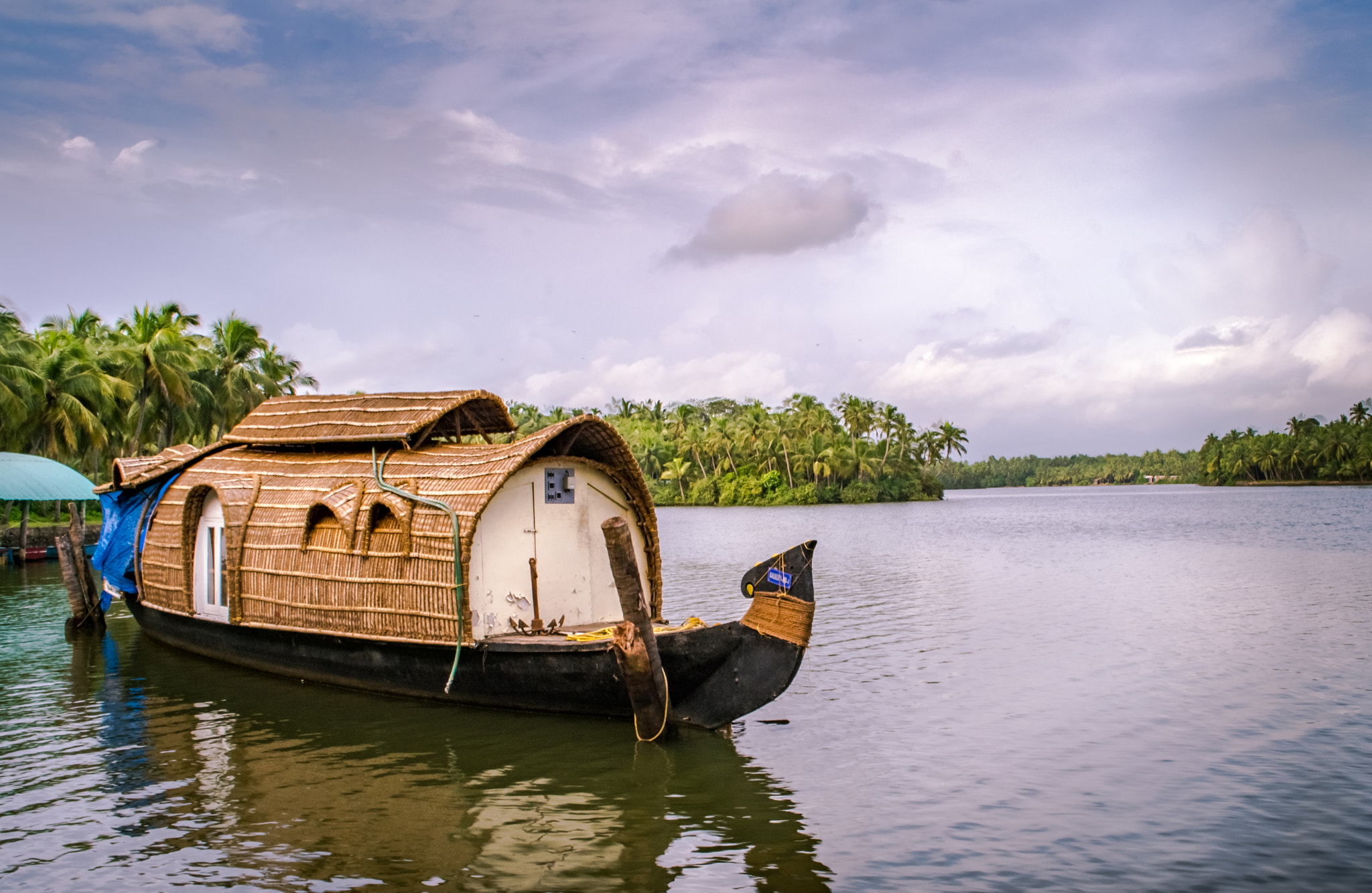 500px provided description: A backwater scene from Biyyam Kayal near Ponnani in Kerala. [#sky ,#lake ,#reflections ,#water ,#nature ,#travel ,#boats ,#backwaters ,#outdoors ,#scenic ,#dramtic ,#river scene ,#Kayal ,#no person ,#Ponnani ,#Landscape ,#Kerala ,#Gods own country ,#backwaters of Kerala ,#Houseboat in Kerala ,#Kerala tourism ,#Kerala backwaters ,#Kerala travel ,#Kerala houseboat ,#Biyyam Kayal ,#Kerala village scene]